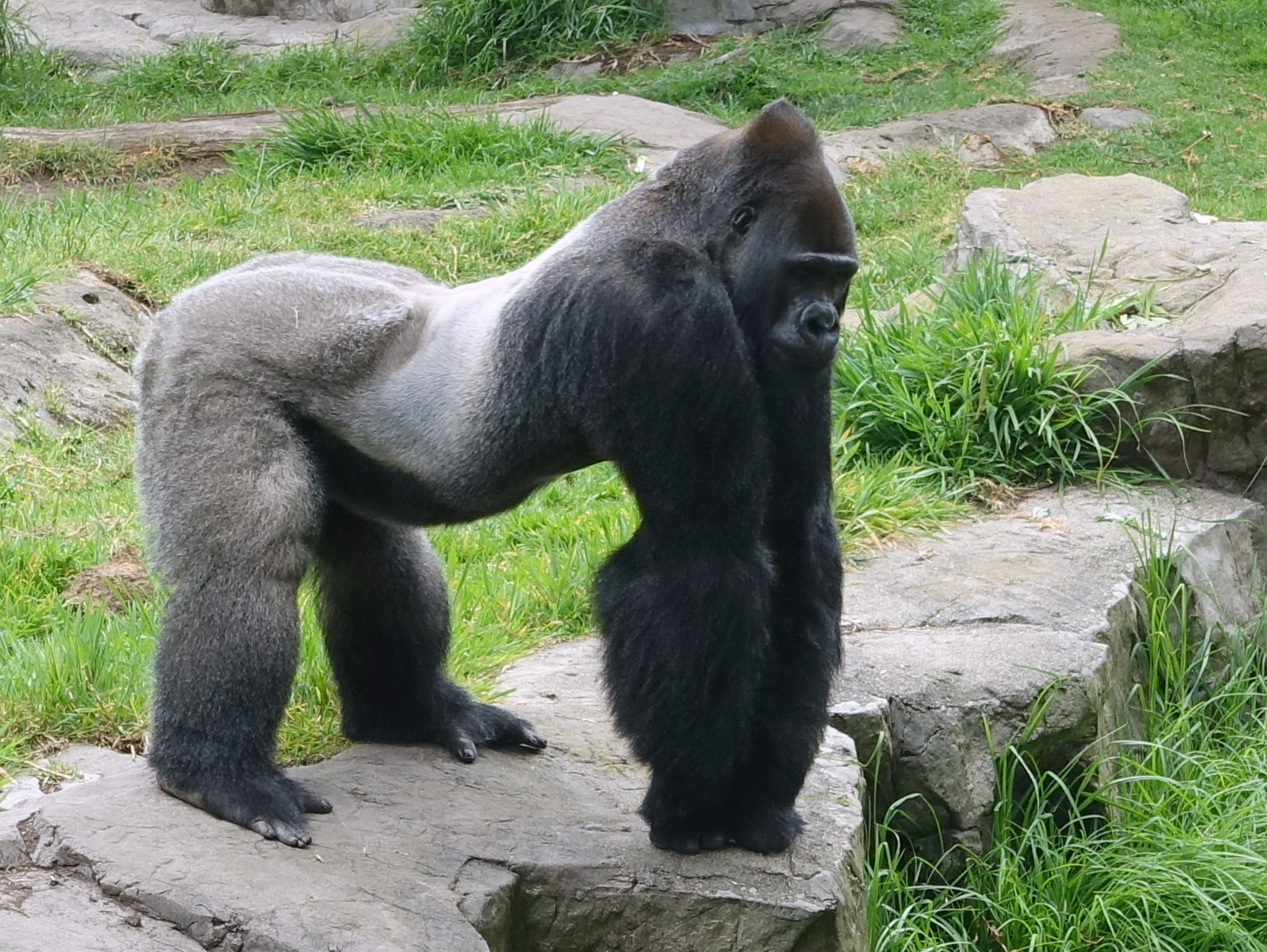 Gorilla gorilla in the San Francisco Zoo - San Francisco, California, USA.